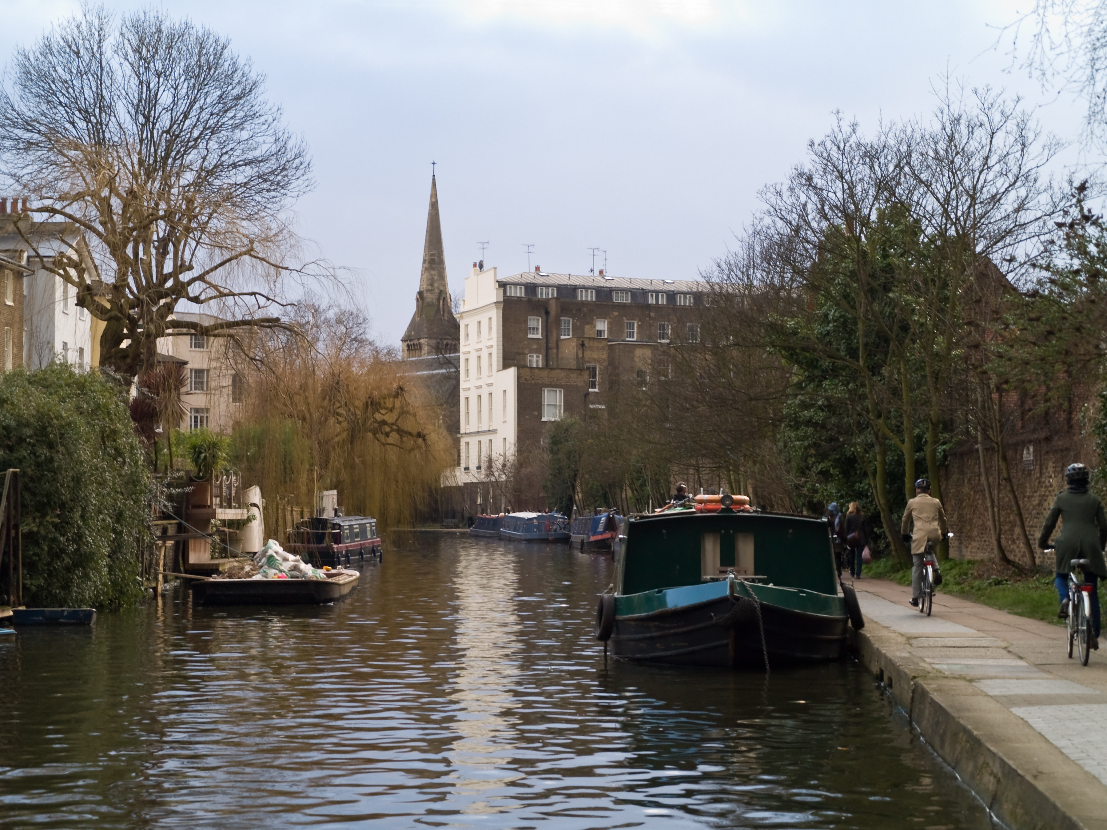 The Regent's Canal in London (United Kingdom). In the backroung is St Mark's Church, Regents' Park.